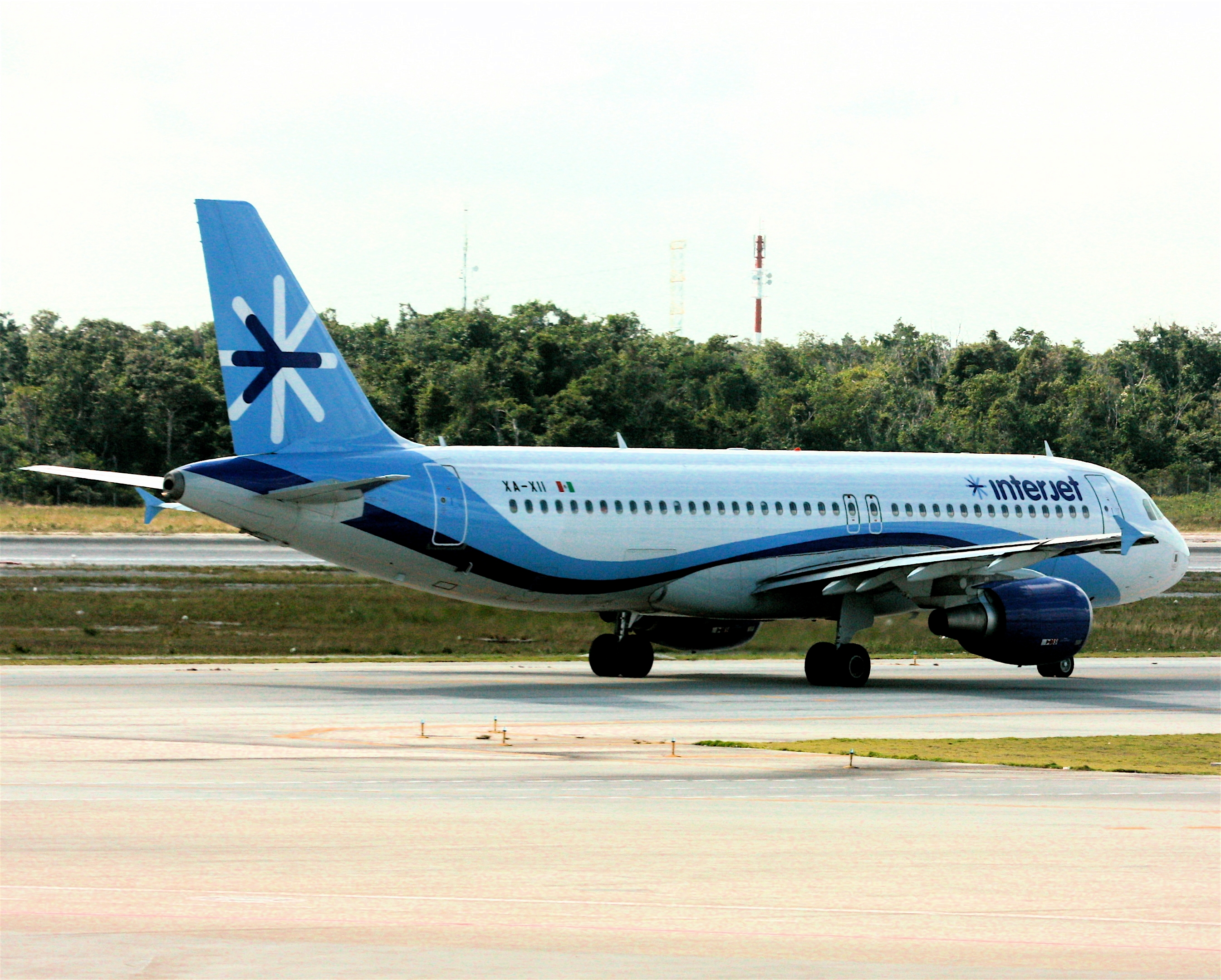 Interjet A320 at Cancun International Airport